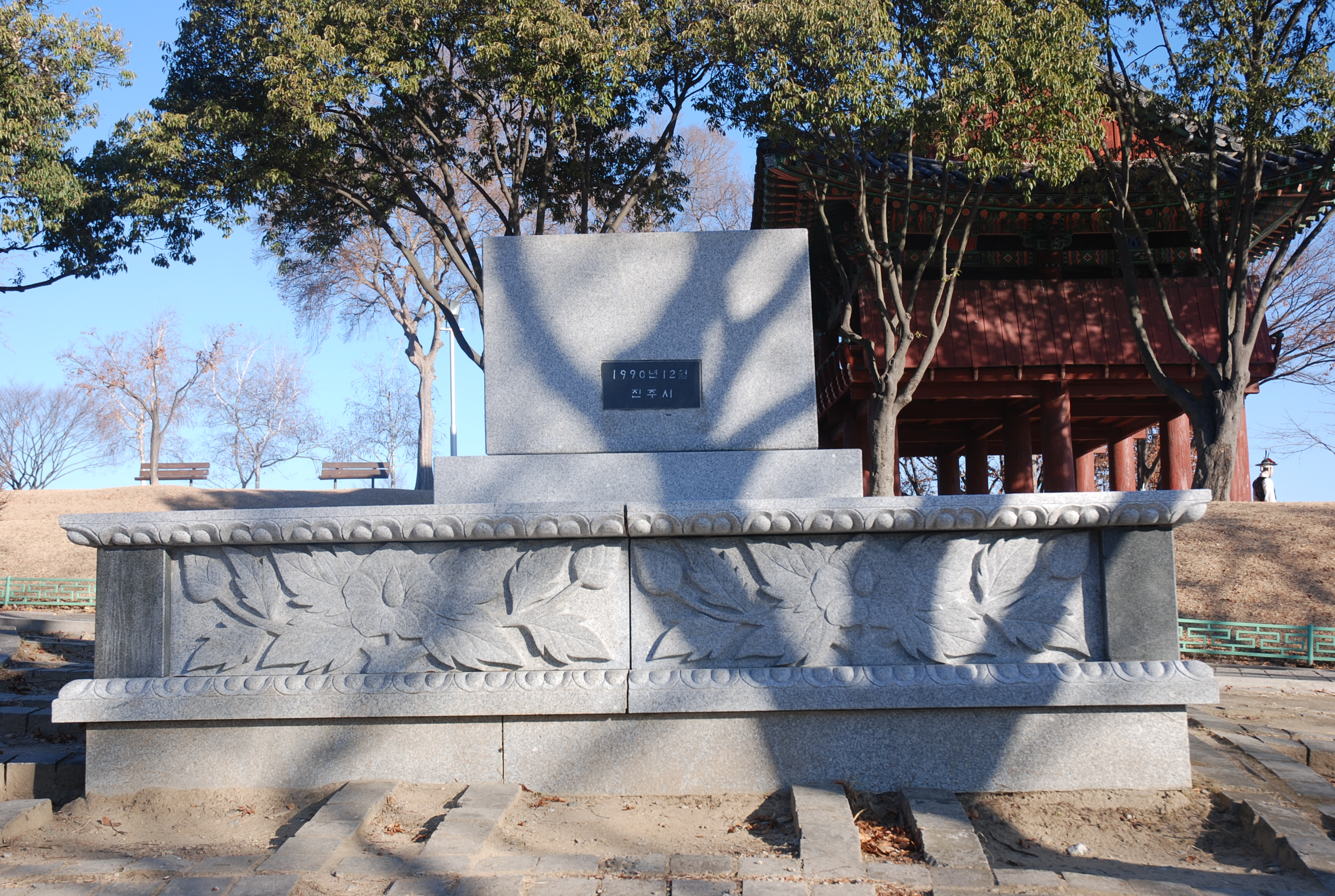 Ha Ryun, the Prime Minister of early Joseon Dynasty, birth place